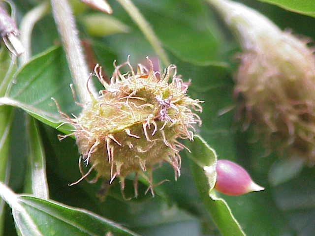 Species: Fagus sylvatica Family: Fagaceae Image No. 1